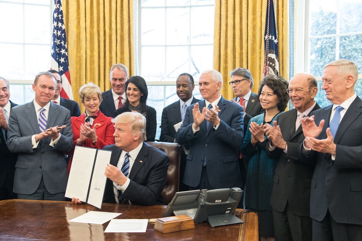 First meeting of the Cabinet of Donald Trump in the White House